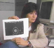 CAROLYN PORCO over NASA JPL animation of Voyager at Uranus, and Voyager images